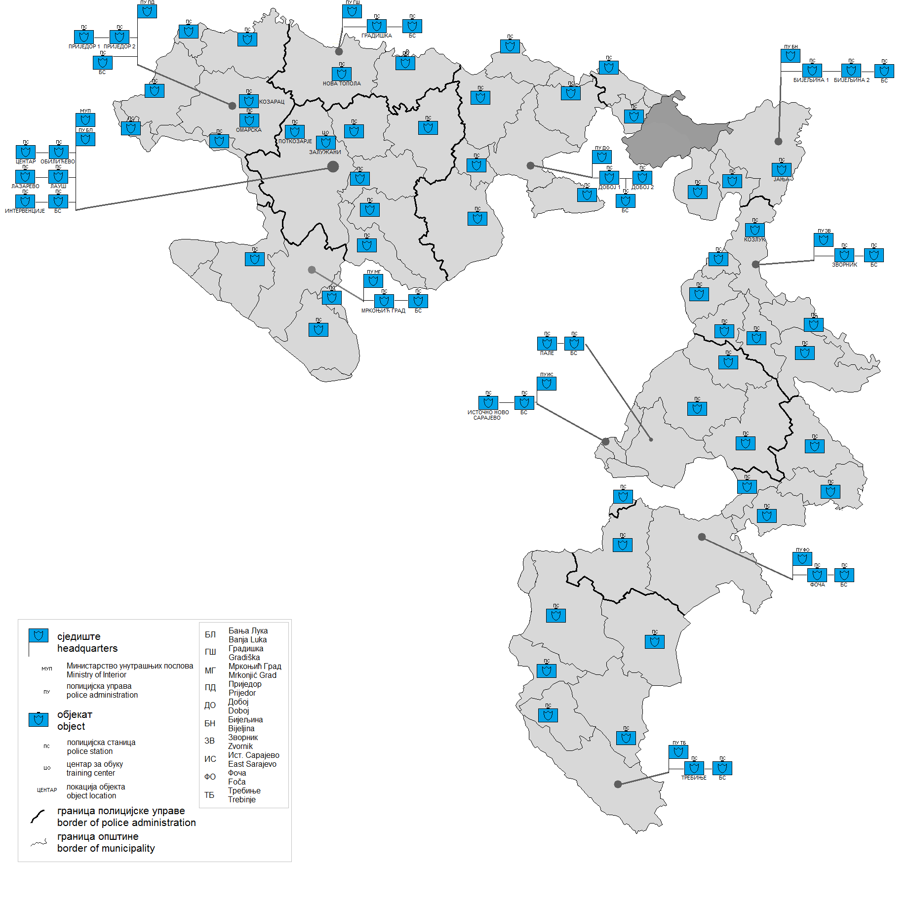 Map of police objects with borders of police administrations in Republika Srpska